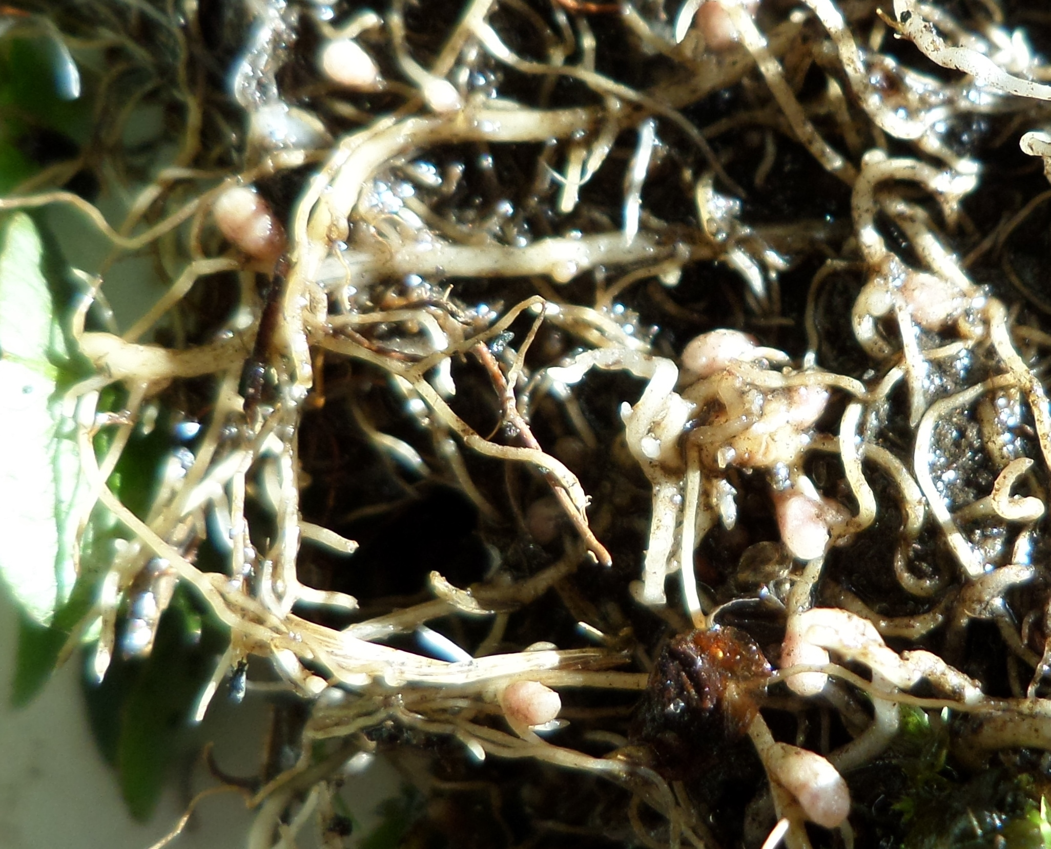 Root nodules on the roots of Trifolium repens (White Clover). The pink colour is leghaemoglobin and the bacteria within are Rhizobium species.